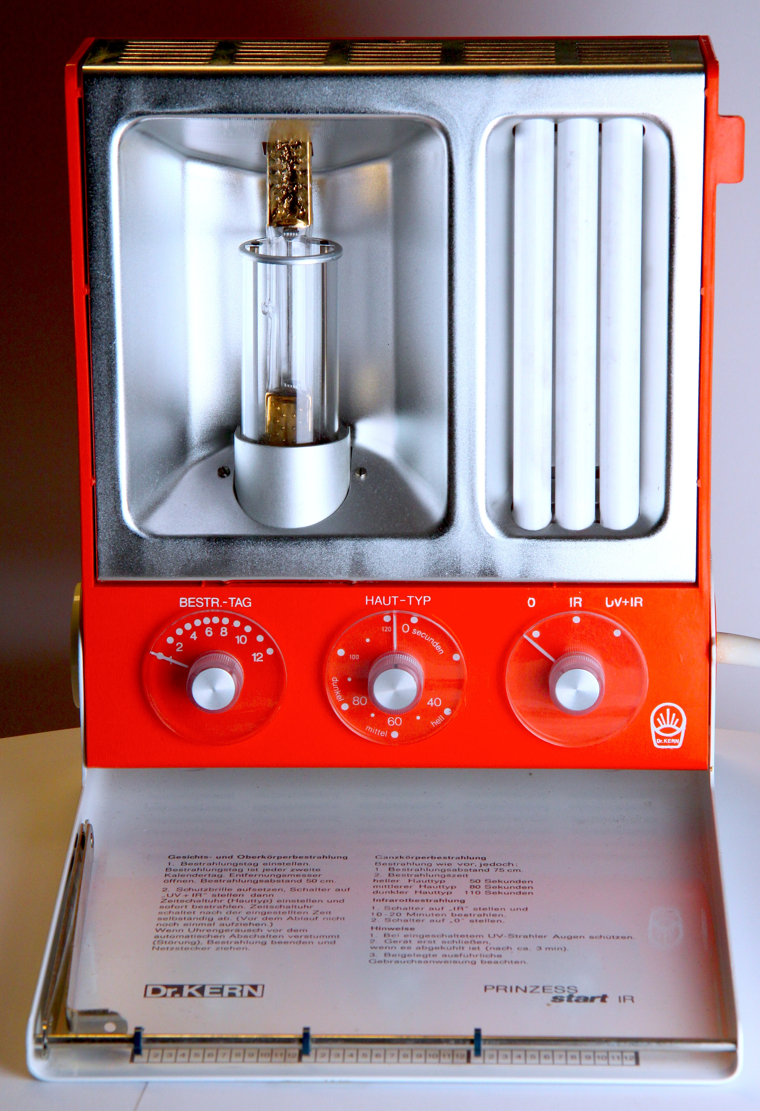 Prinzess start IR tanning lamp by German manufacturer Dr. Kern (1970s model)